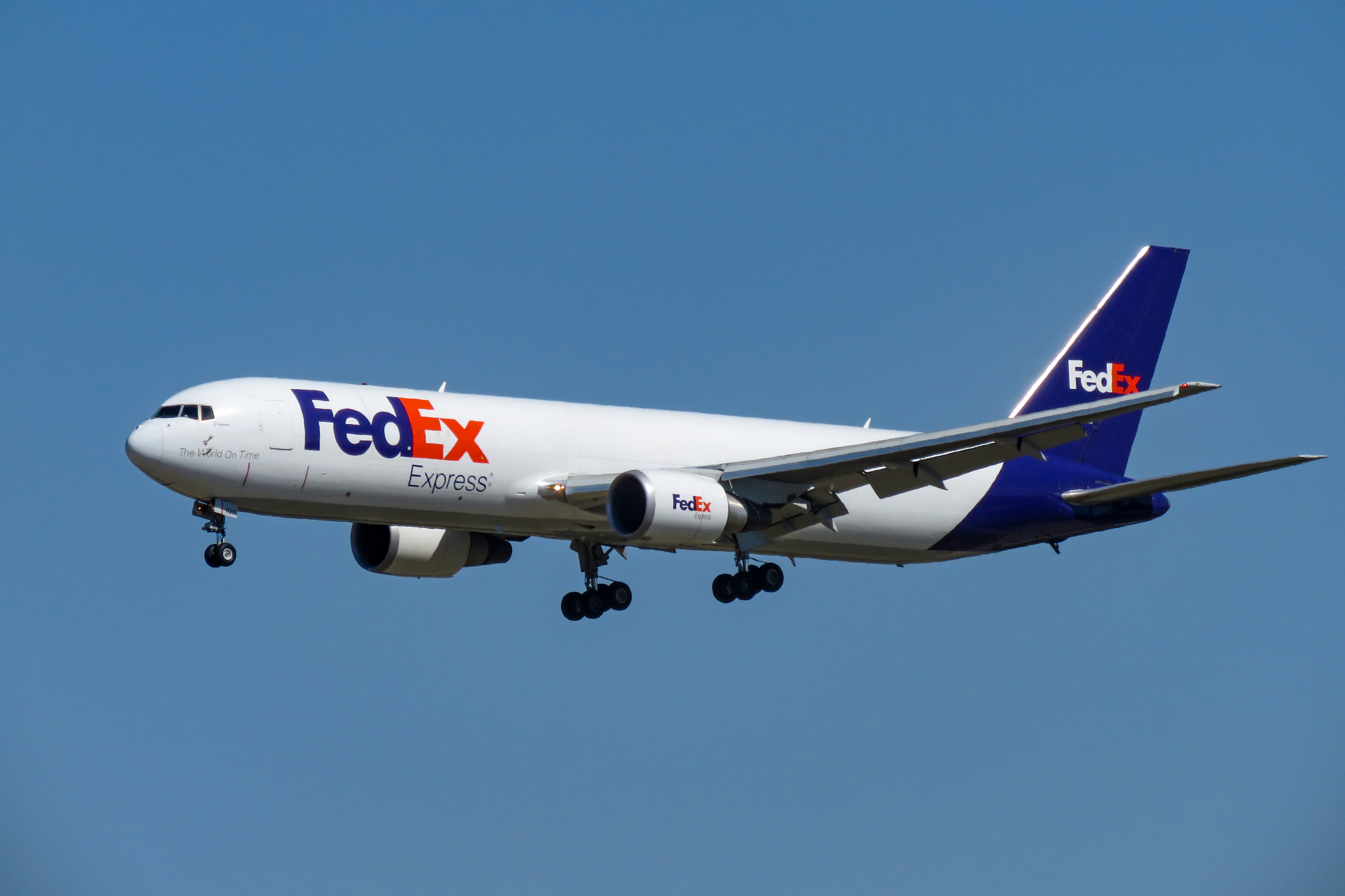 FedEx 5835 from Seoul-Incheon. This time it didn't go around!